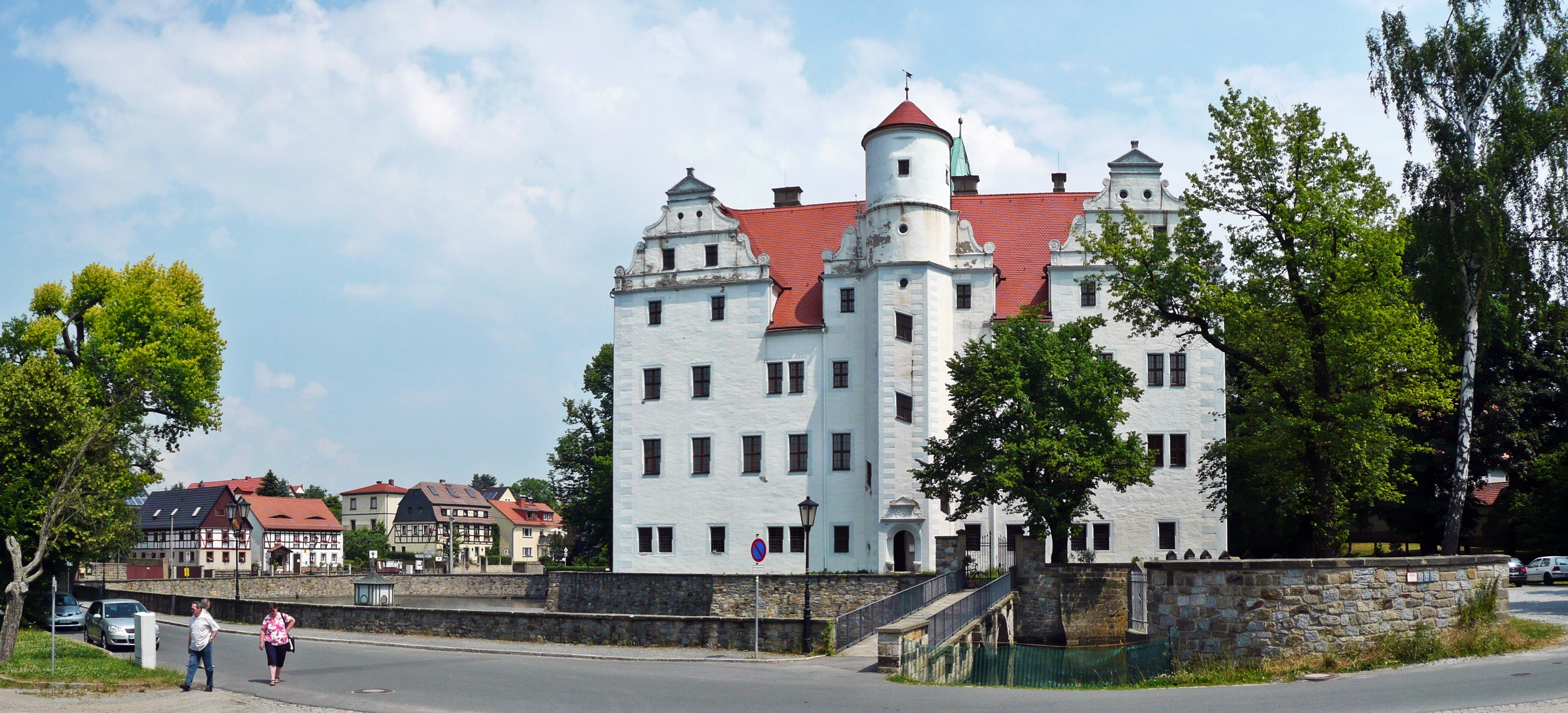 This image shows Schönfeld Palace (Schloss Schönfeld) in Schönfeld near Dresden.